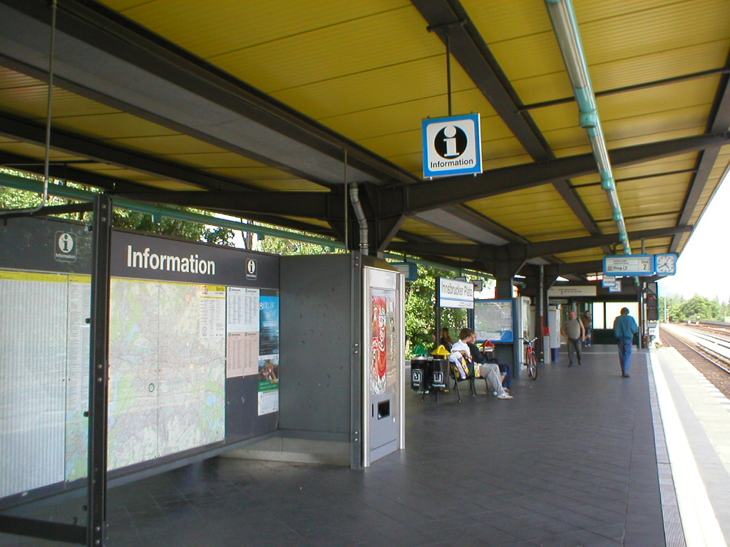 Platform of Berlin's suburban rail station Innsbrucker Platz